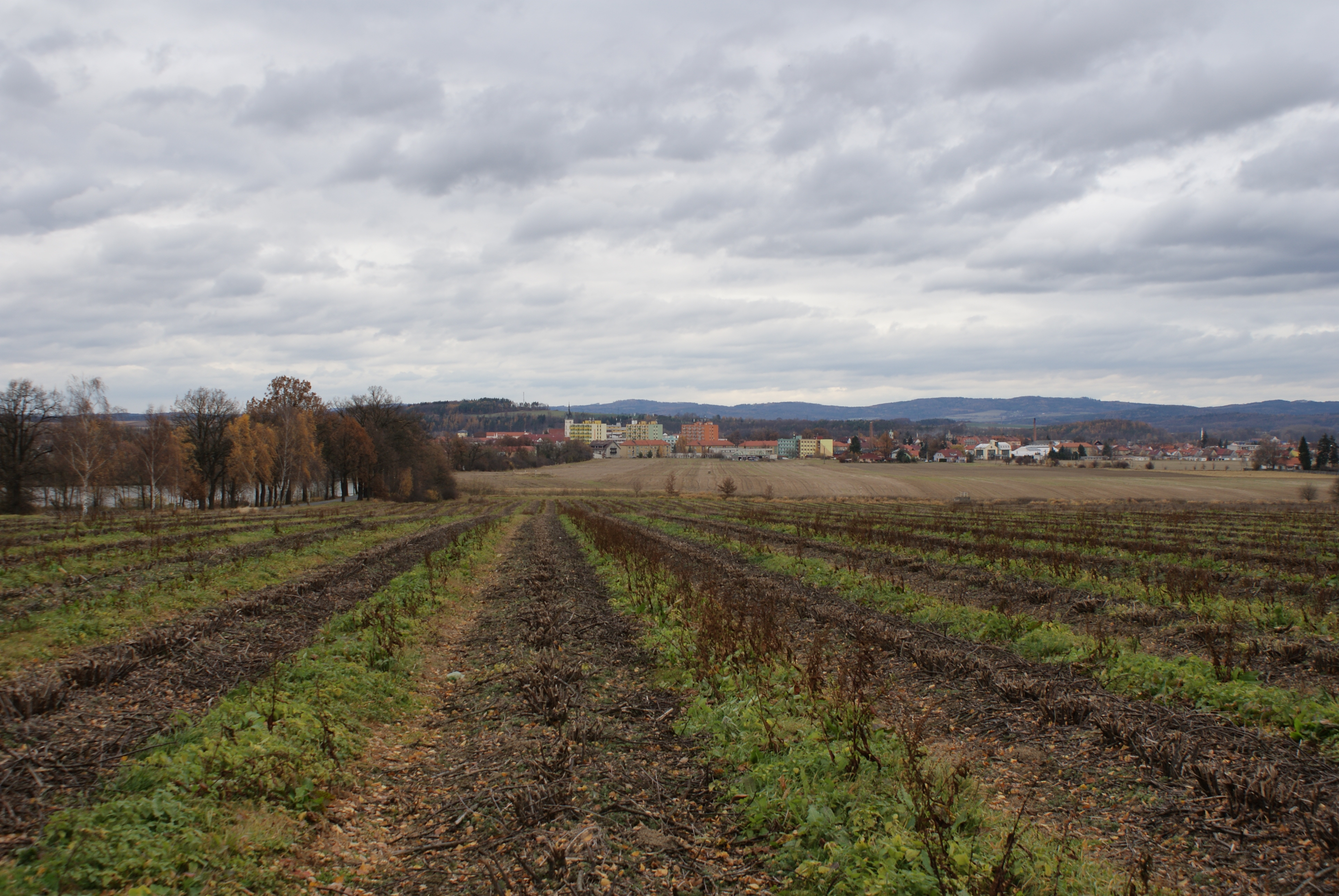 Vodňany a town in Strakonice district, Czech Rep. seen from the south.